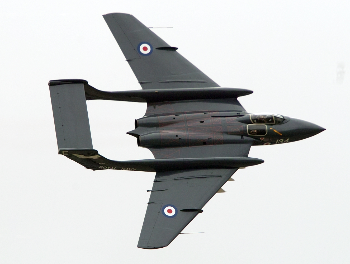 A De Havilland Sea Vixen D.3 (s/n XP924, G-CVIX) at the 2009 Yeovilton Air Show. The aircraft is painted as a Sea Vixen FAW.2 of 899 Naval Air Squadron which was assigned to the aircraft carrier HMS Eagle (R05) from 1964 to 1972.